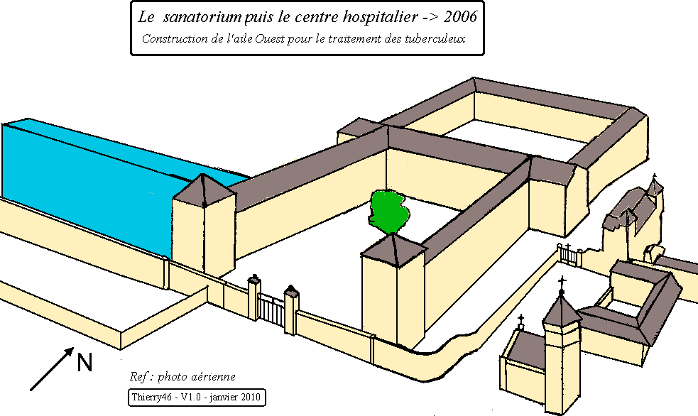 Map of the hospital before 2006 in town Montfaucon in Lot, France.